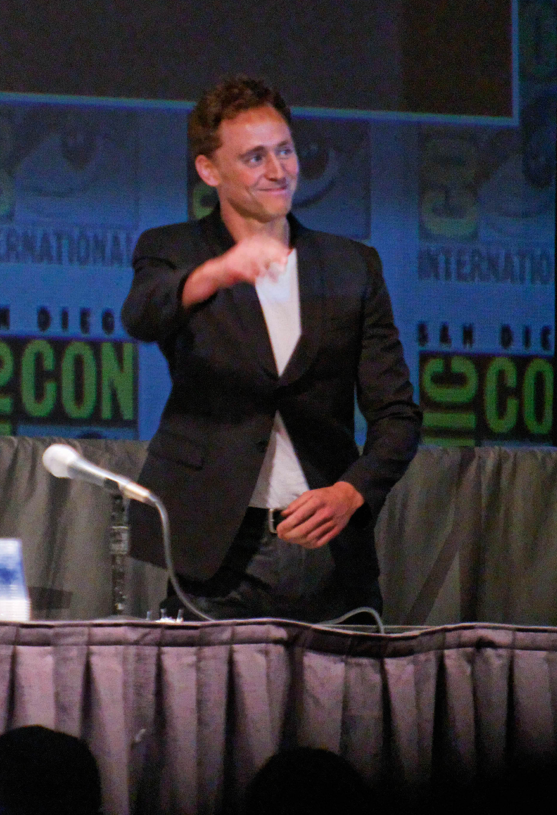 Tom Hiddleston at the 2010 San Diego Comic-Con International